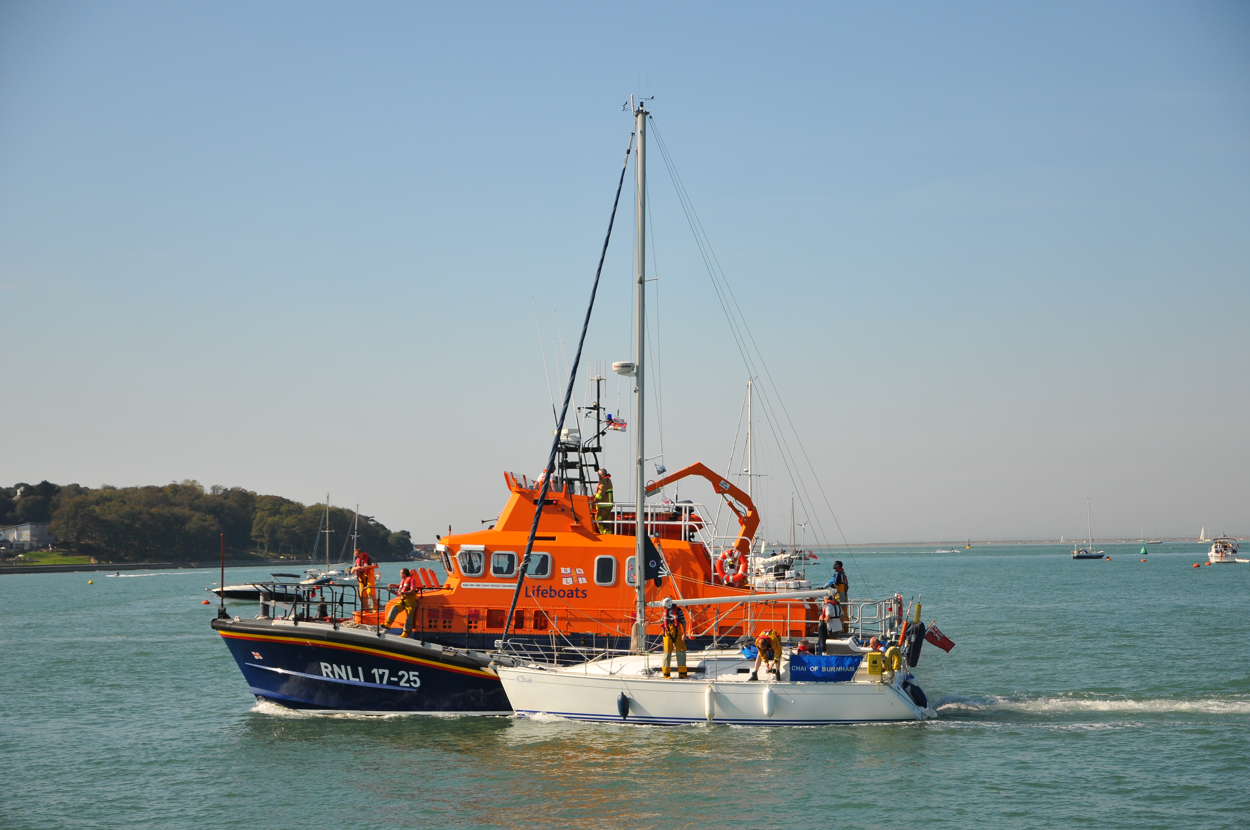 The RNLI Lifeboat in Yarmouth, Isle of Wight seen rescuing people from a burning yacht.